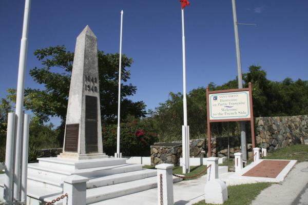 Border crossing between Saint-Martin (French part) and Sint Maarten (Dutch part). More photos of Saint-Martin